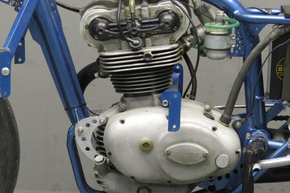 1958 Ducati 125 Trialbero factory racer engine, left side